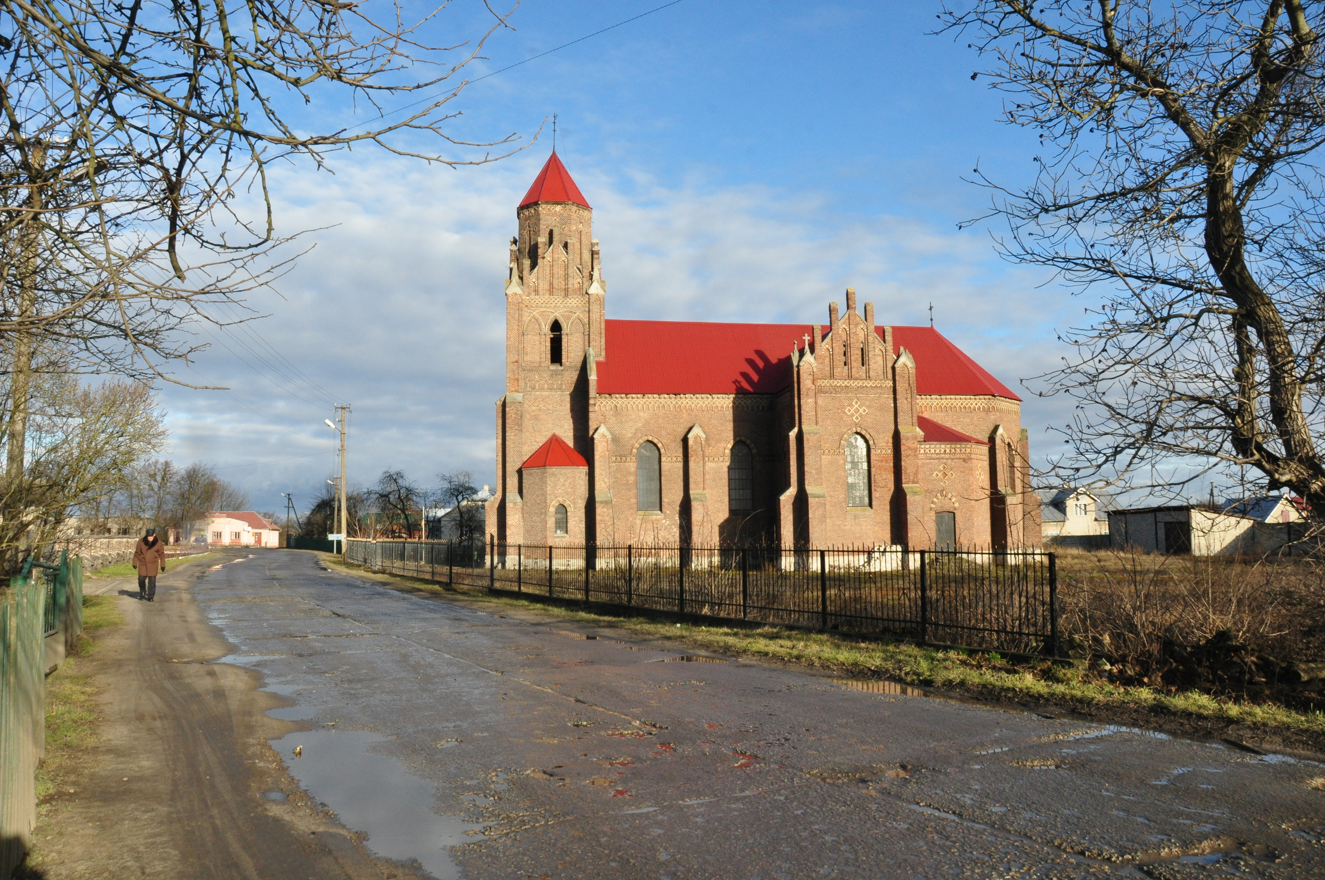 Roman Catholic Church in Staryj Dobrotvir, Kamyanka-Buzka Raion, Lviv Oblast